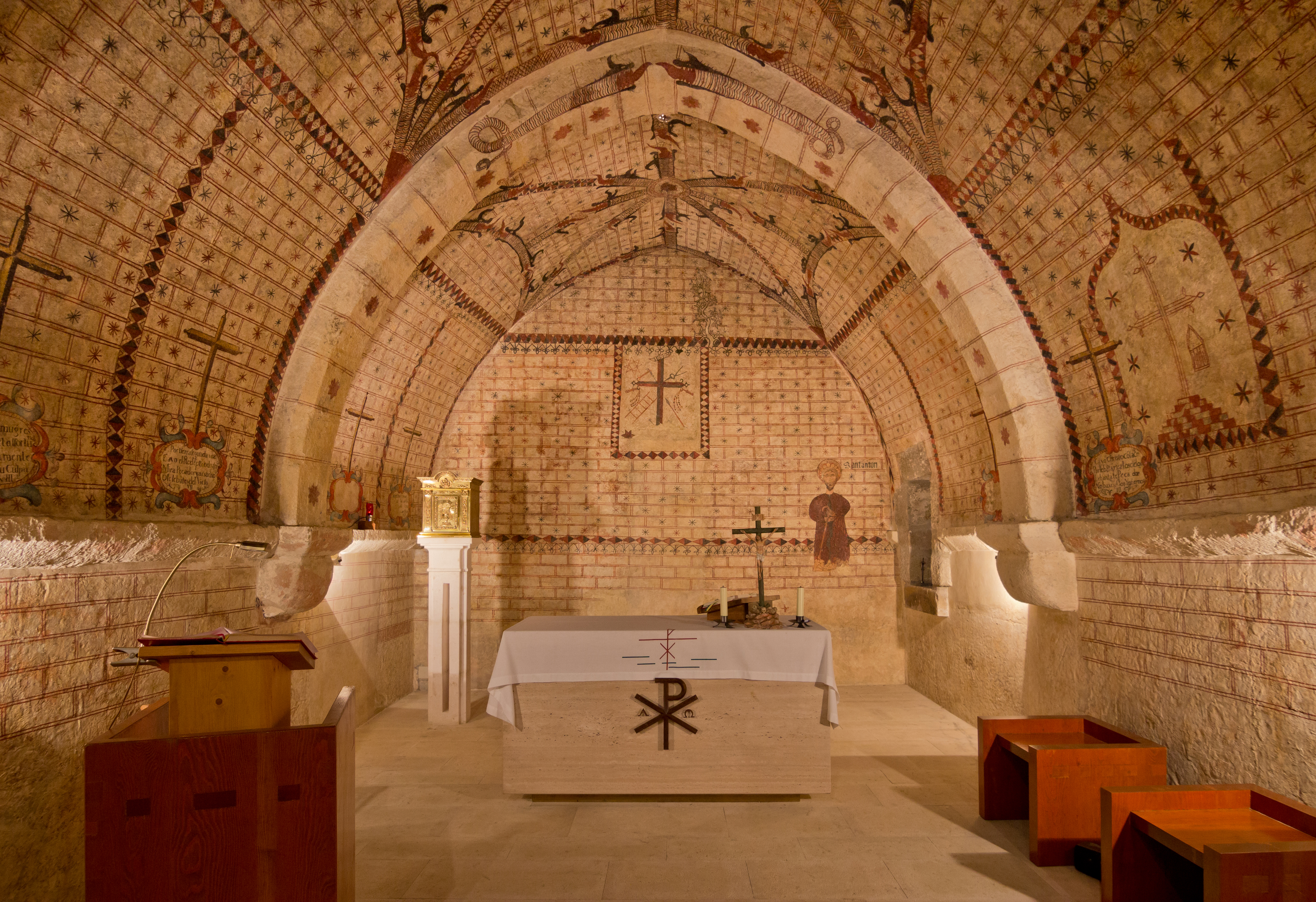 Church of Our Lady of the Rosary, Riaño, León, Castile and León, Spain.